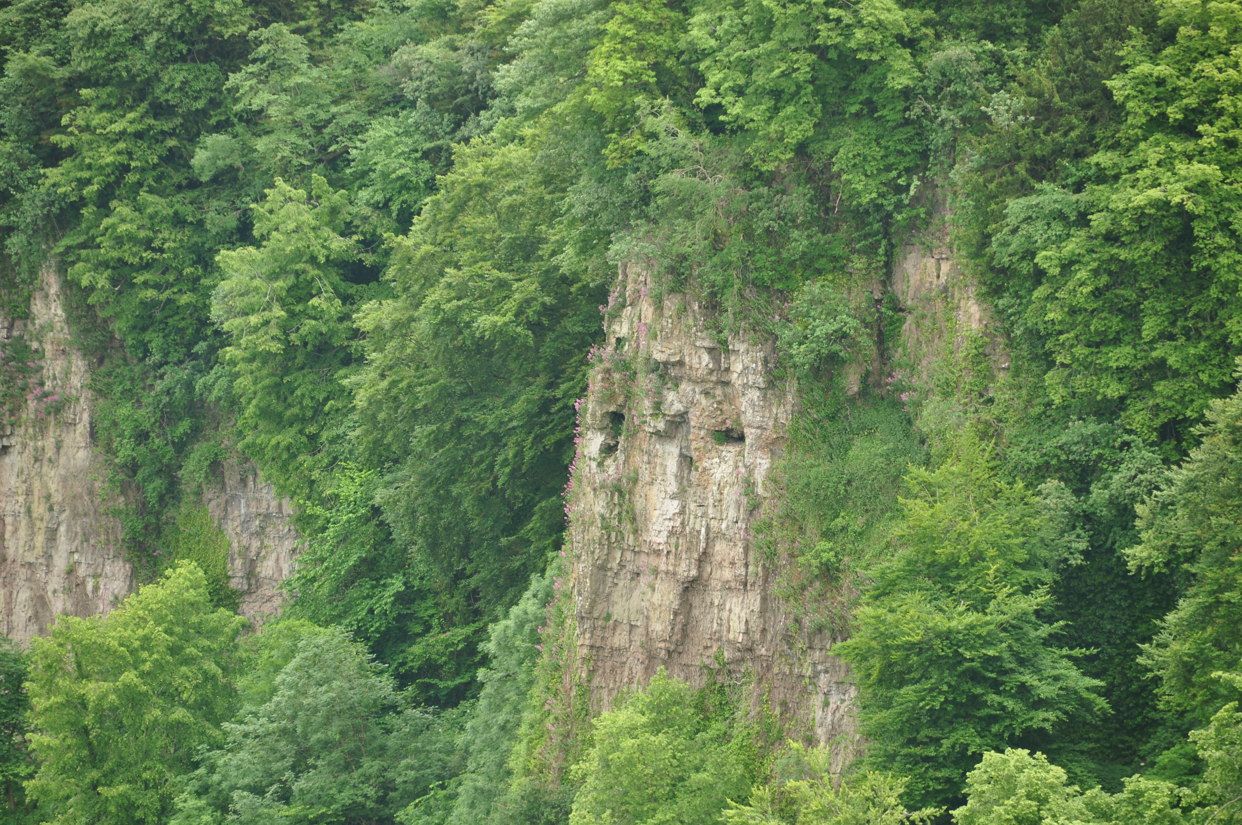 Peregrine and cliffs at Symonds Yat